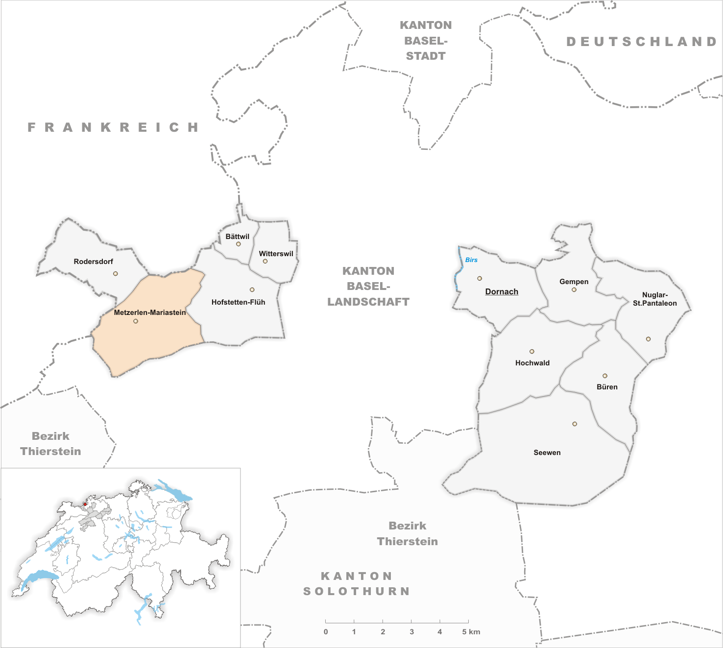 Municipality Metzerlen-Mariastein